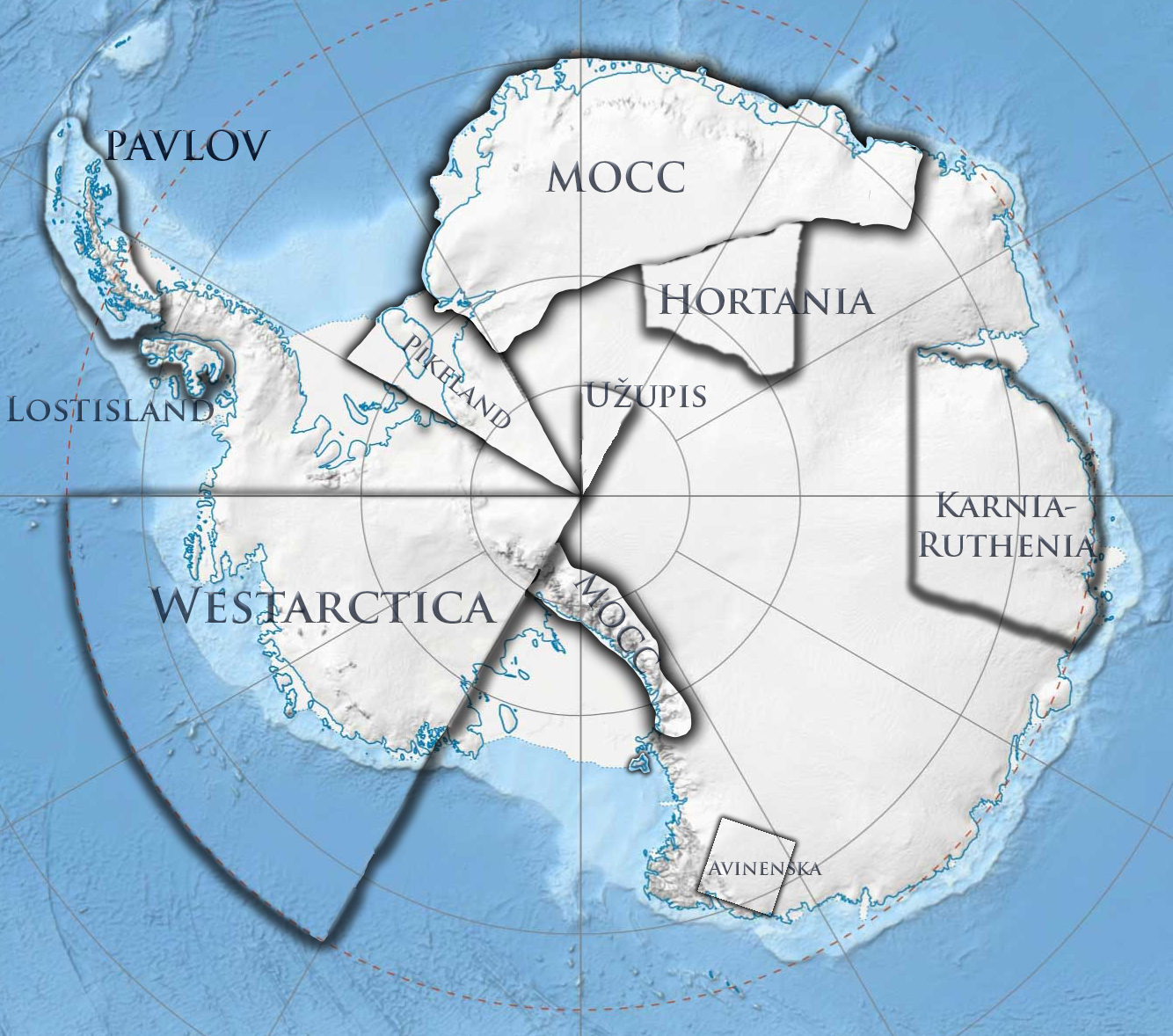 Map of land claims of member states of the Antarctic Micronational Union.